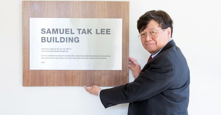 Sam Tak Lee Building number 9 at MIT on July 28, 2015